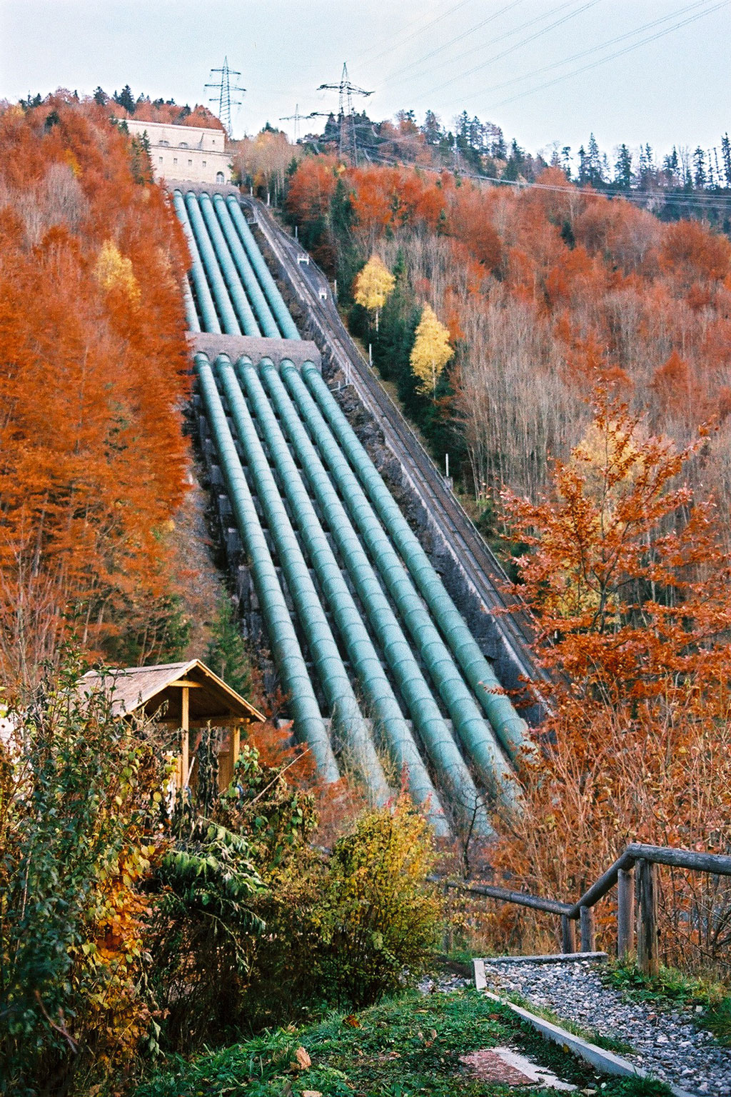 Walchensee power station, Germany Tubes from the Walchensee lake to the Walchensee power station